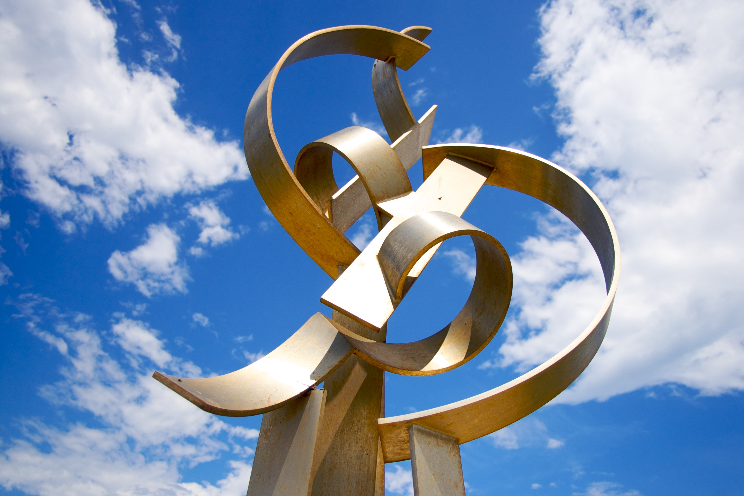 Sculpture Windhover (2001) by Lenton Parr in Sandringham, Melbourne/Australia